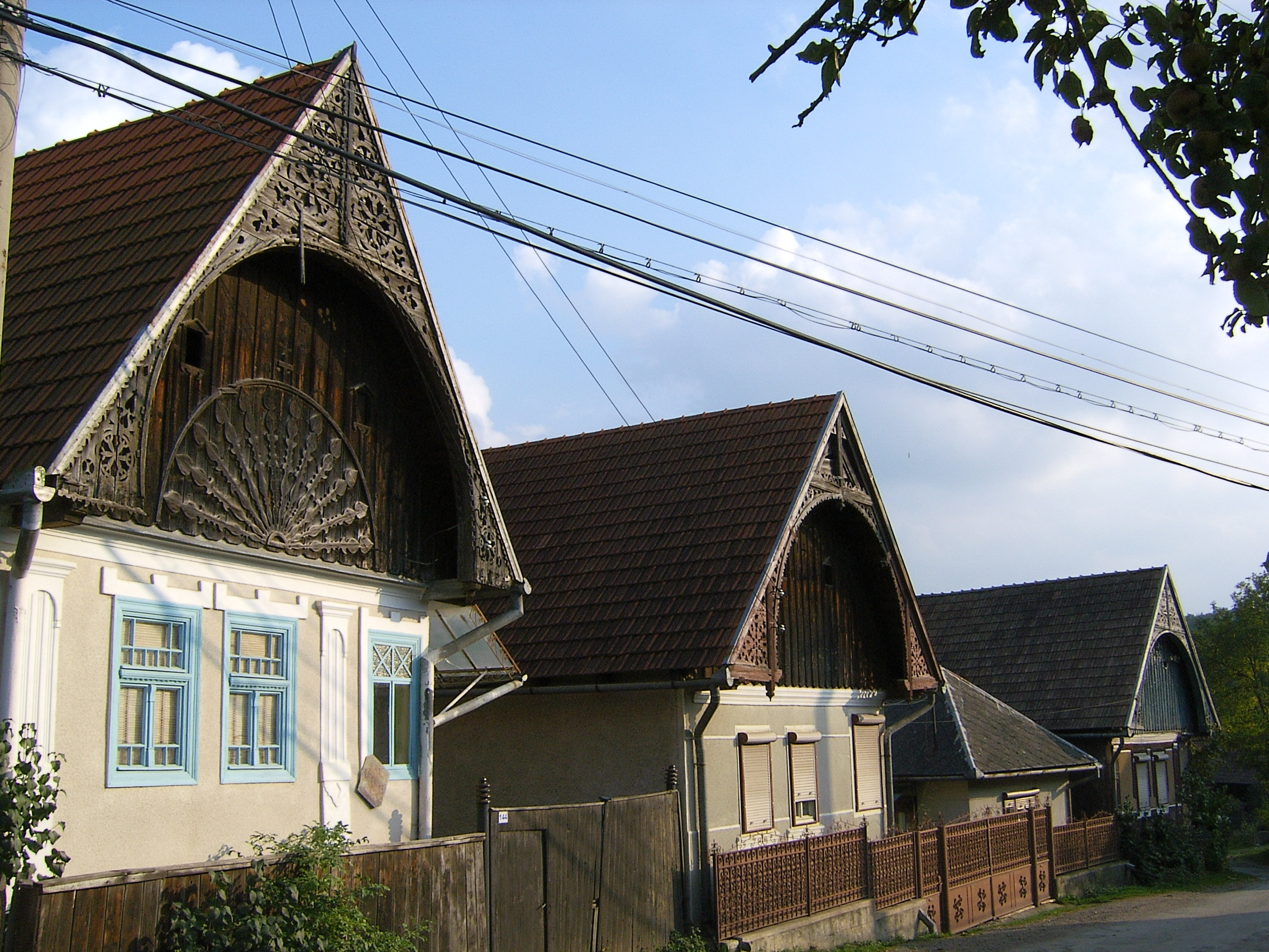 Street in Mănăstireni, Transylvania